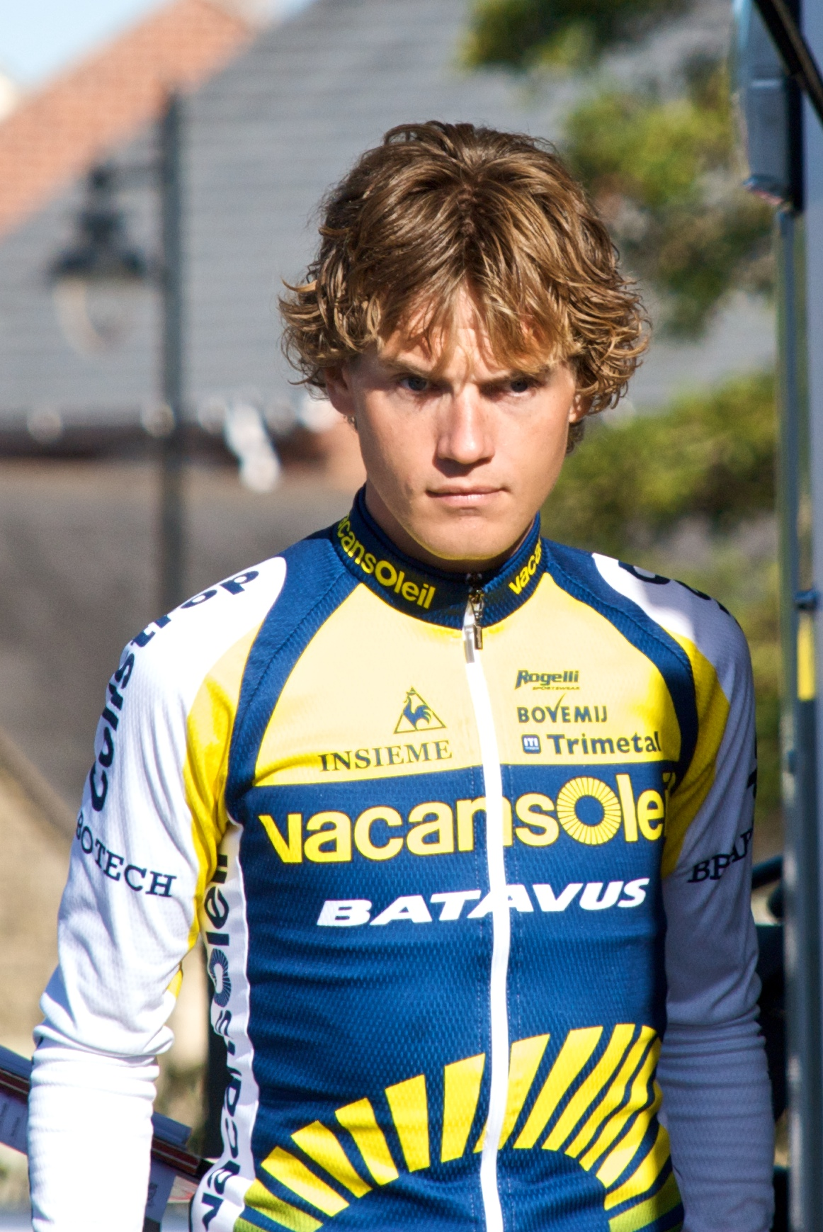 Rob Ruygh, Tour of Britain 2009, Stage 6